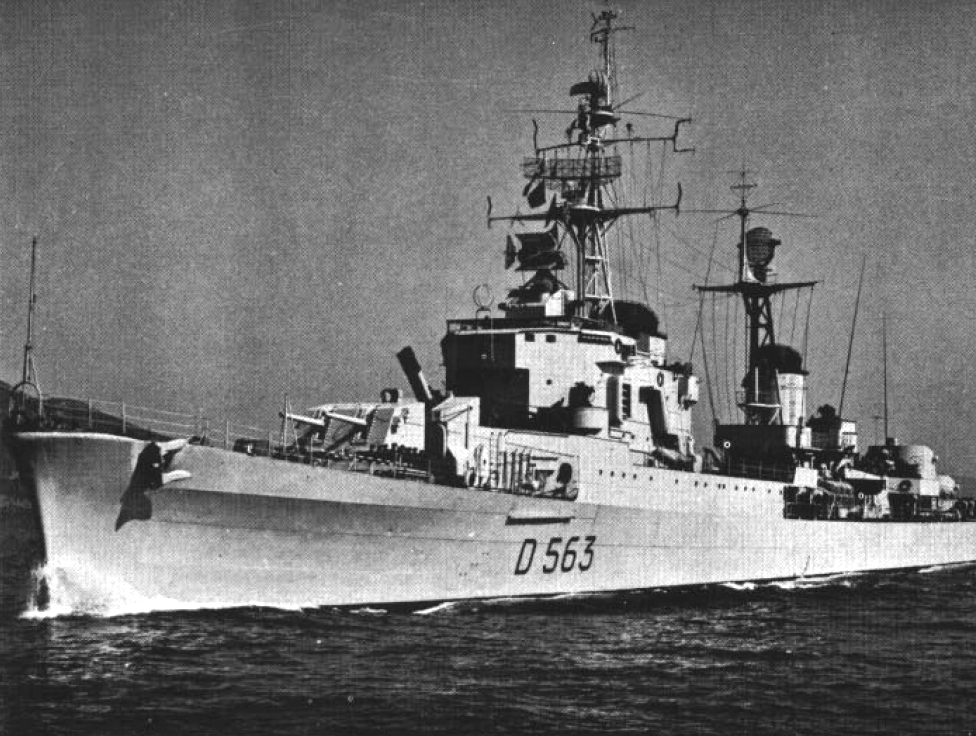 The Italian destroyer San Marco (D563) underway, circa 1962.